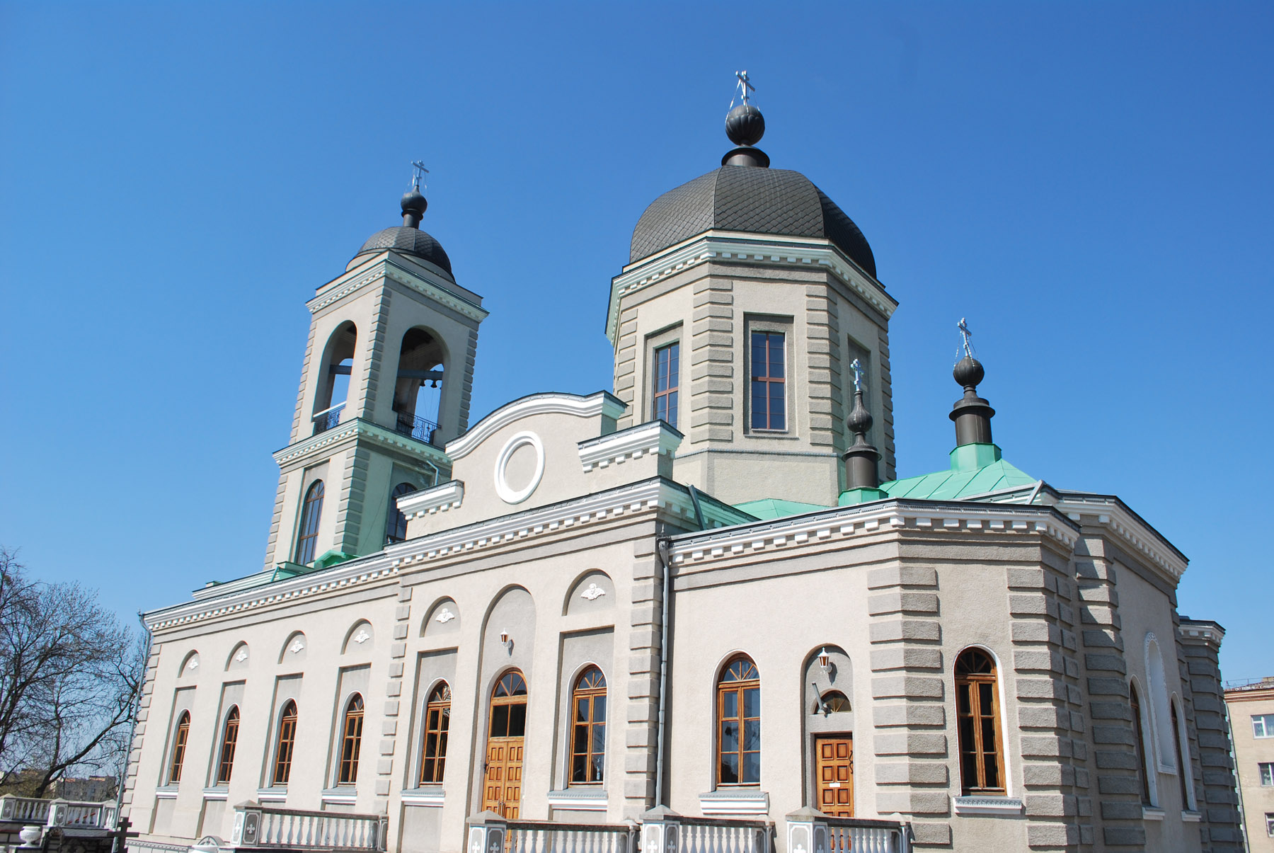 Orthodox Cathedral of the Intercession of the Theotokos in Khmelnytsky